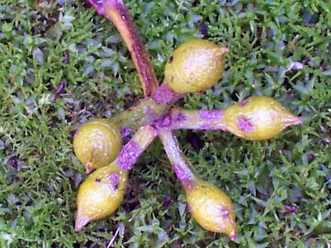 Eucalyptus pilularis inflorescences